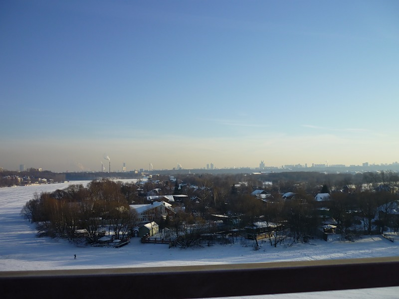 Rechnik settlement in Moscow.